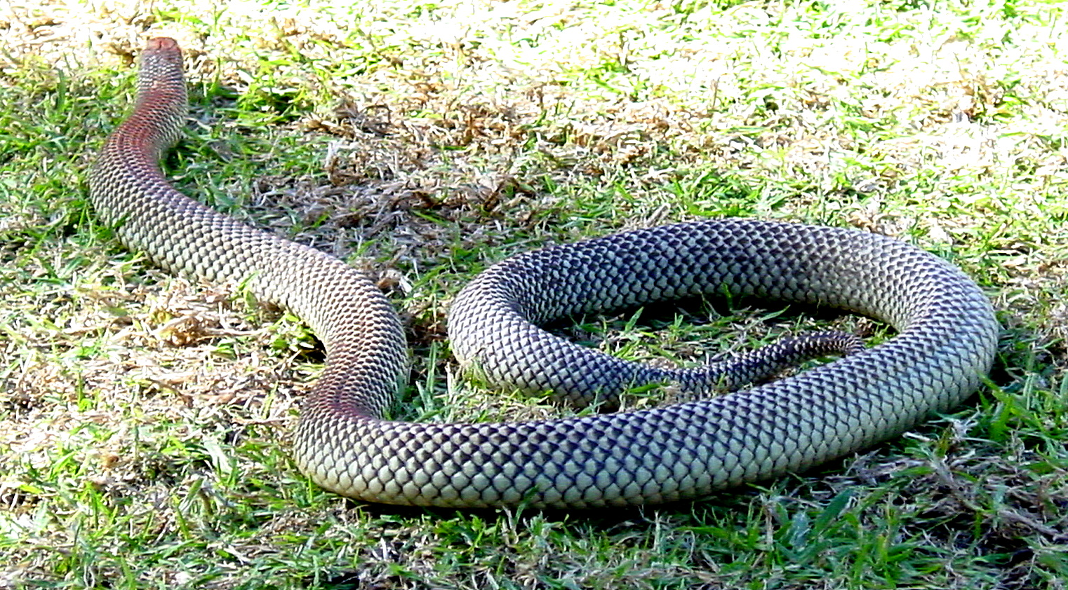 Pseudechis australis, aka the King Brown Snake or Mulga Snake is a venomous snake found in Australia. It is the second largest venomous snake in Australia (after the Taipan) and produces large amounts of venom. Although the name implies it is a brown snake, it is in fact part of the black snake genus.